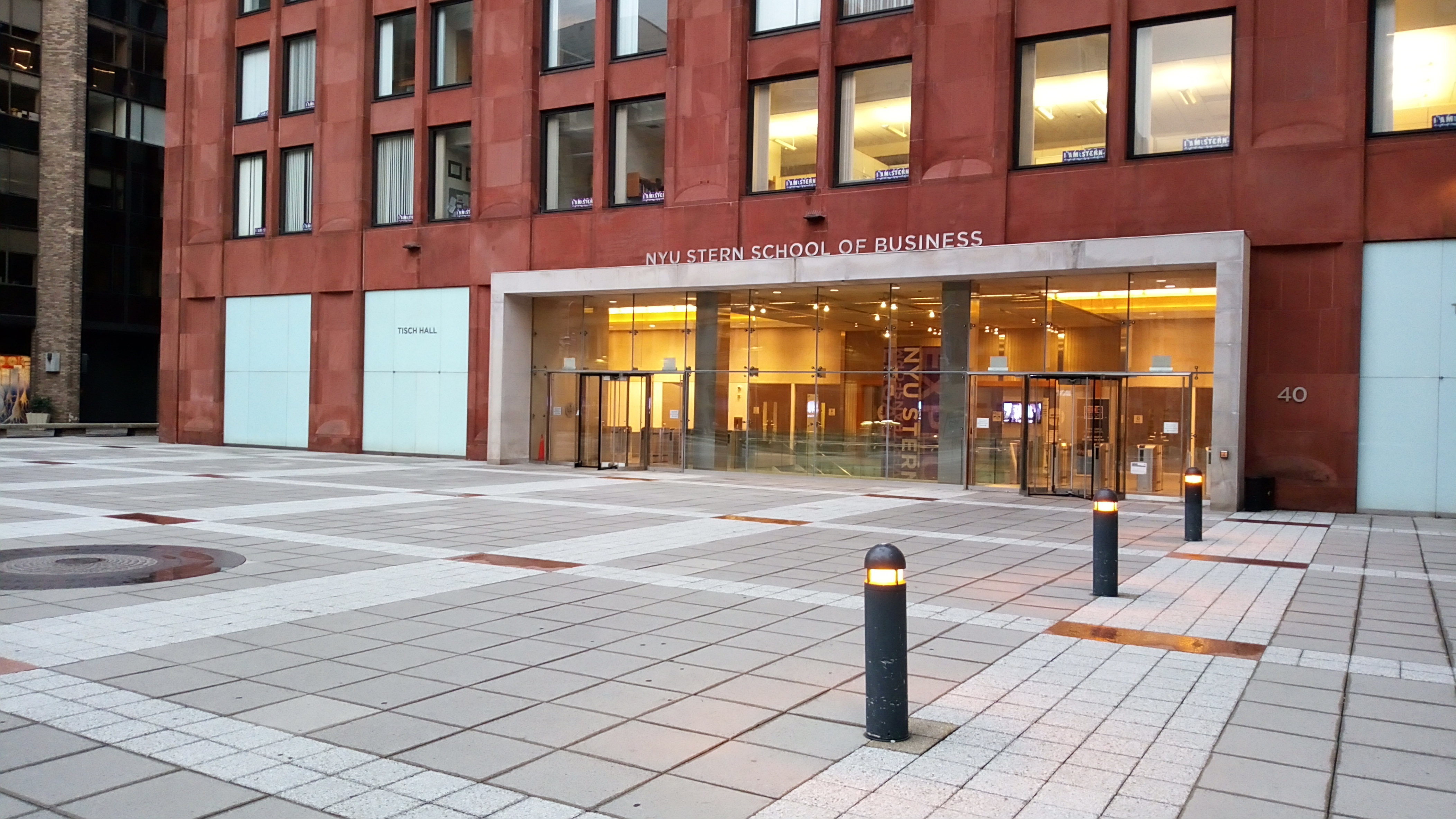 NYC, the United States of America